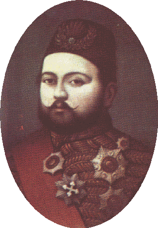 Portrait of Abbas Helmi I (1813-1854), wāli (viceroy) of Egypt and grandson of Muhammad Ali Pasha.